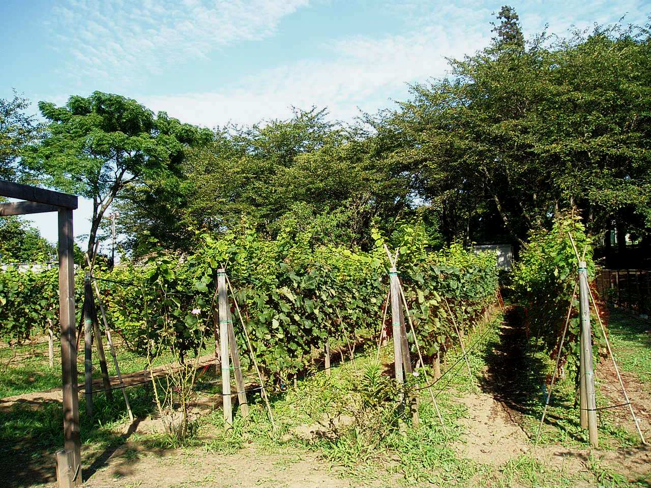 An experimental vineyard attached to the Chateau Kamiya.Located in Ushiku, Ibaraki, Japan.